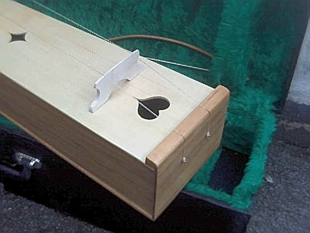 Icelandic fidla, "Fiðla"